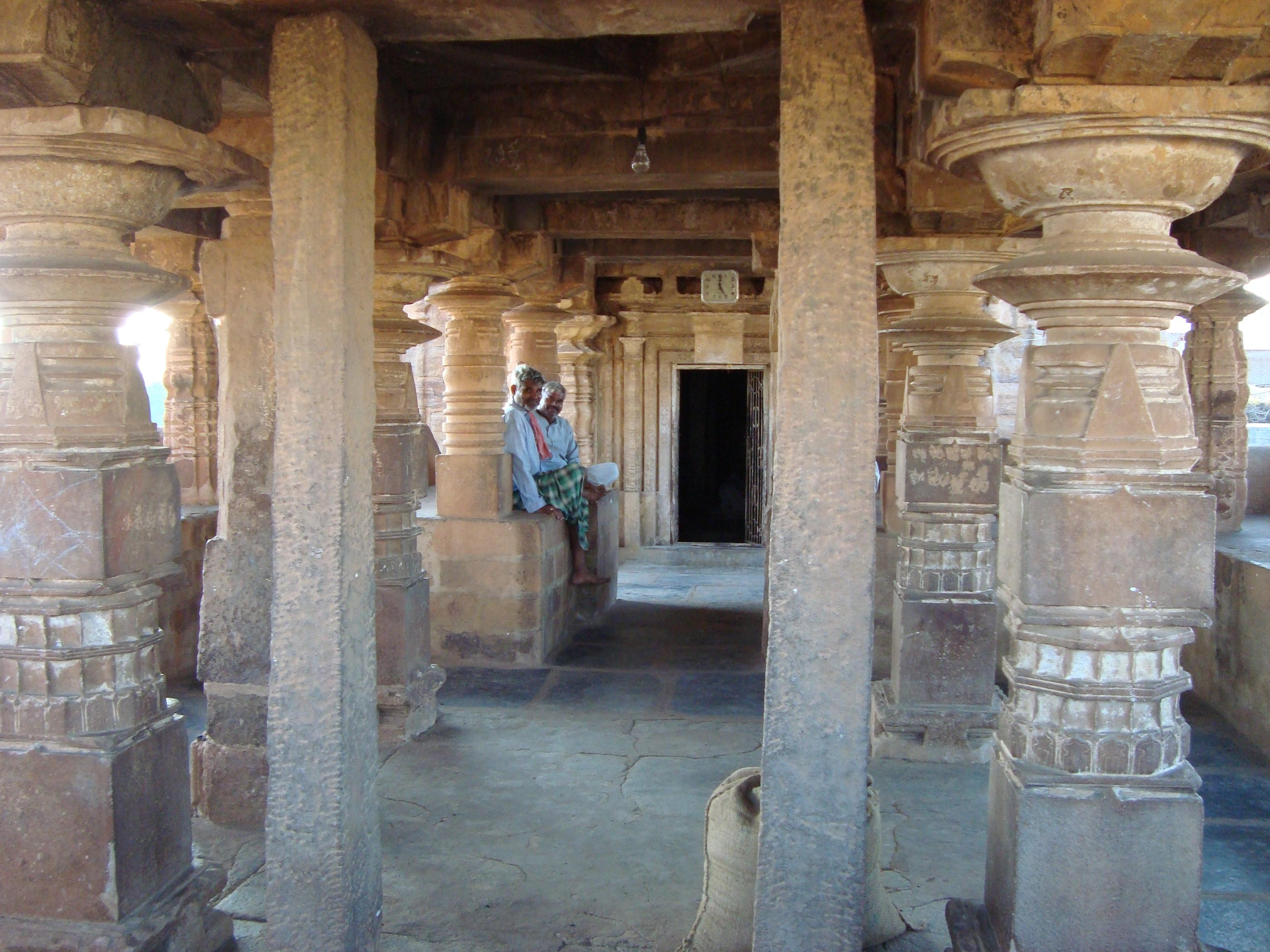 Itagi Historical shiva temple Hubli, Karnataka(North), India